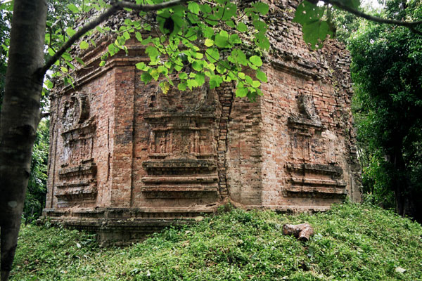 S11 Sanctuary. Sambor Prei Kuk. Cambodia